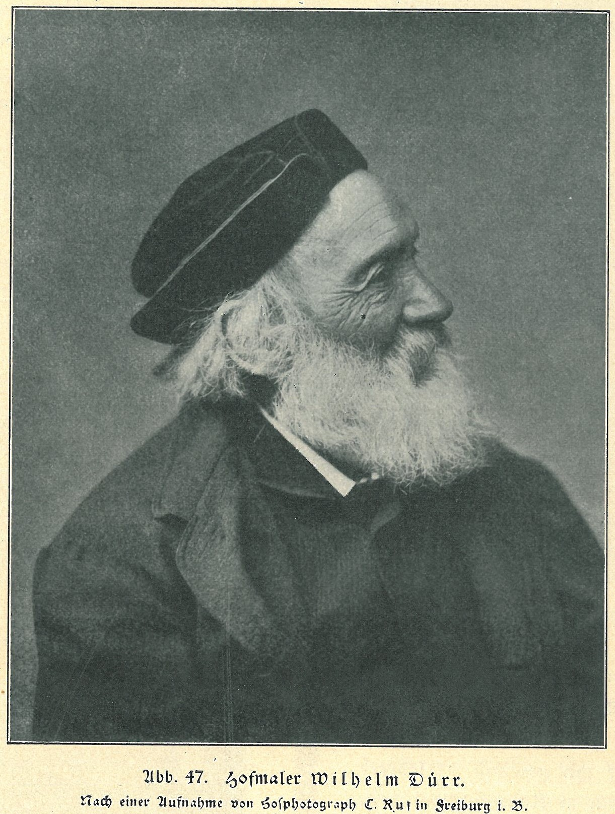 Fotograph of the painter Wilhelm Dürr the older (1815-1890)